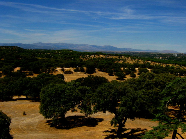 A view of Meseta Central and Sierra de Guadarama, from Casa del Campo, Madrid.